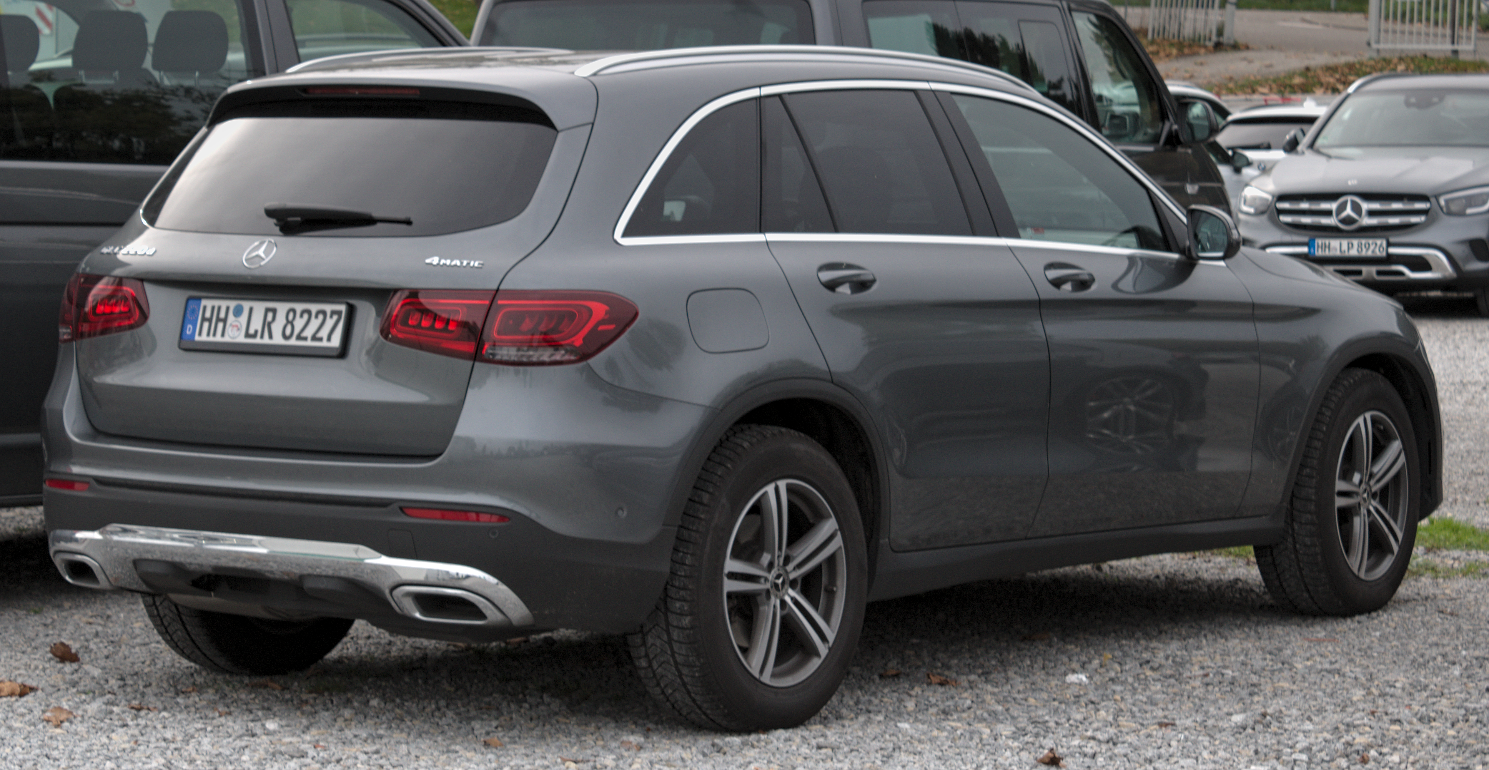 Mercedes-Benz_X253 in Stuttgart-Vaihingen